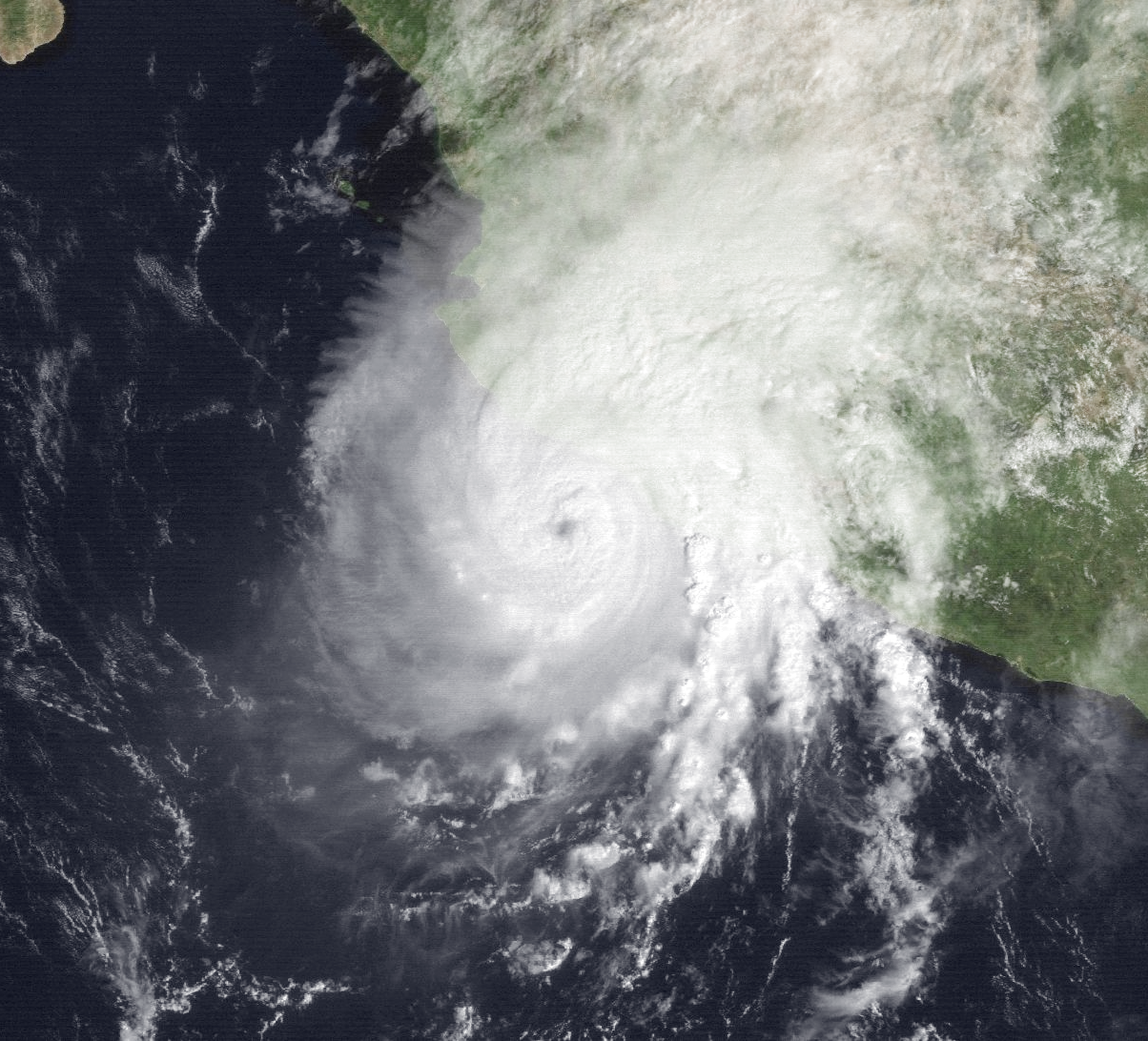 Hurricane Winifred near peak intensity on October 9, 1992